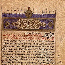 Canon of Medicine (980 – 1037)